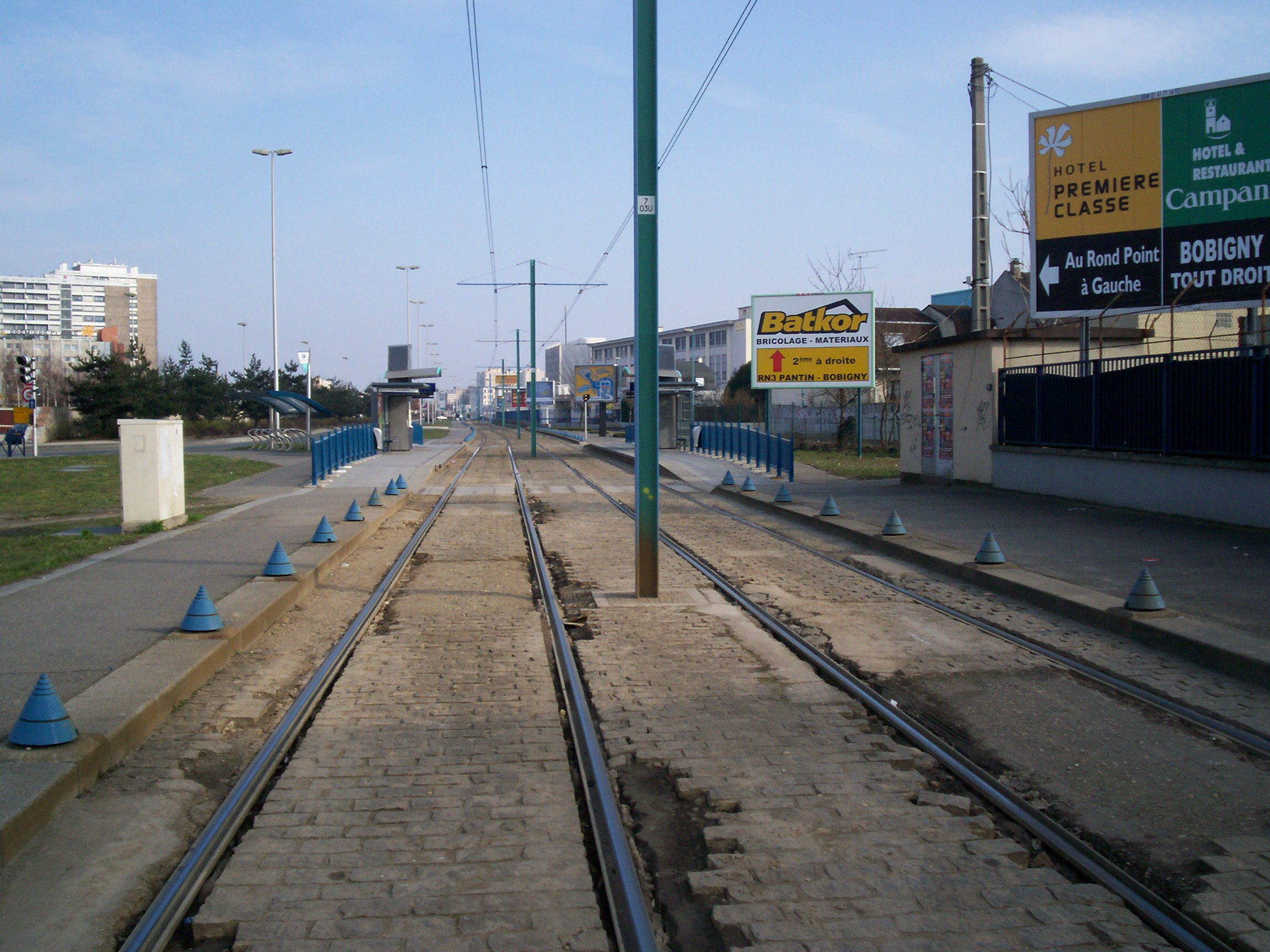 Station T1 RATP "Gaston Roulaud"